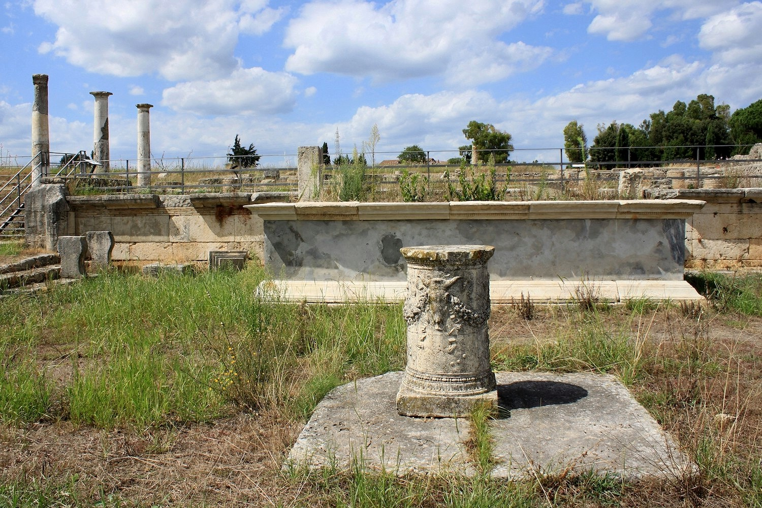 Archaeological site of Lucus Feroniae (Italy). Forum.